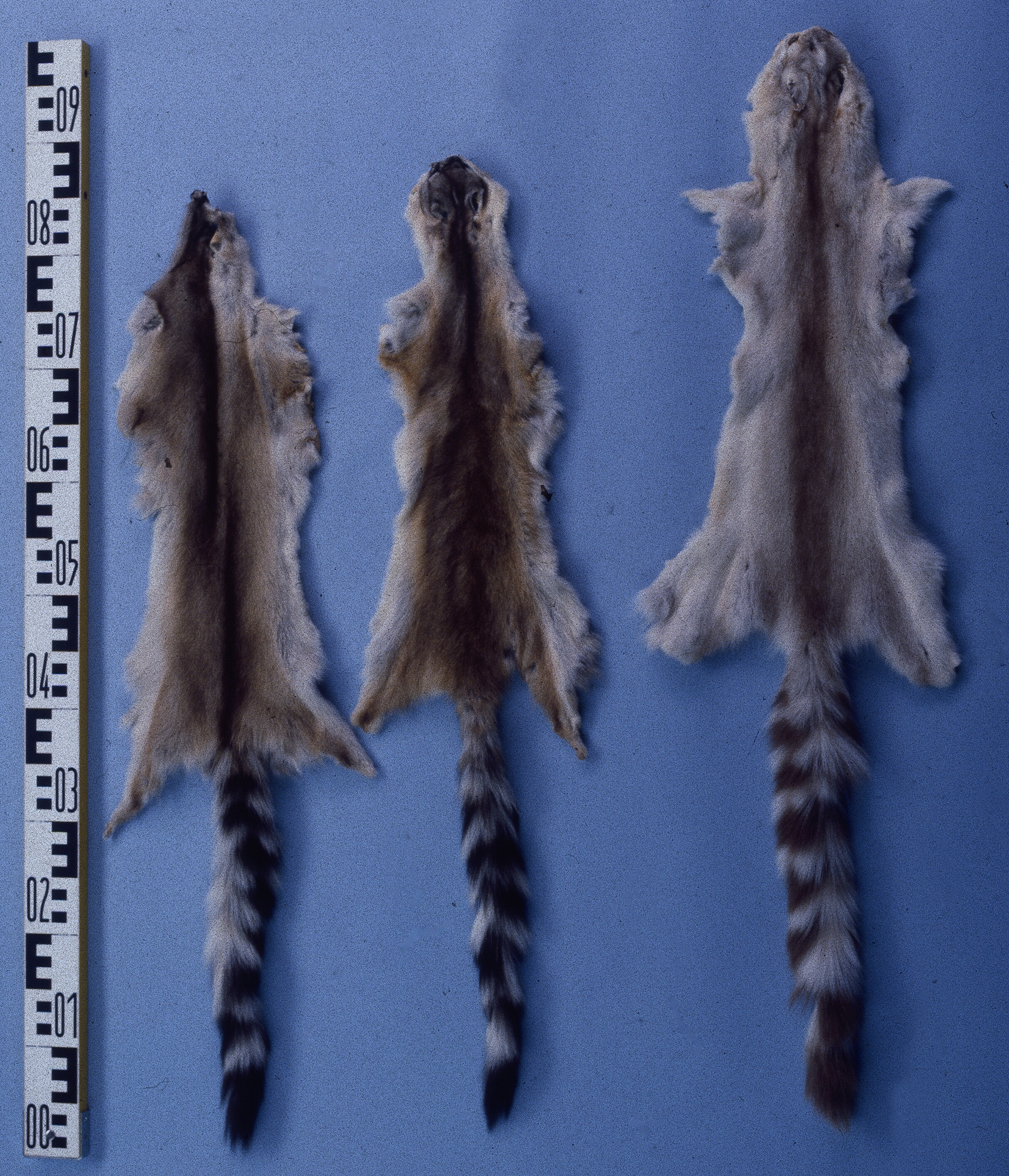 American ringtails or bassarisk fur skins (Bassariscus astutus). Fur skin collection, Bundes-Pelzfachschule, Frankfurt/Main, Germany